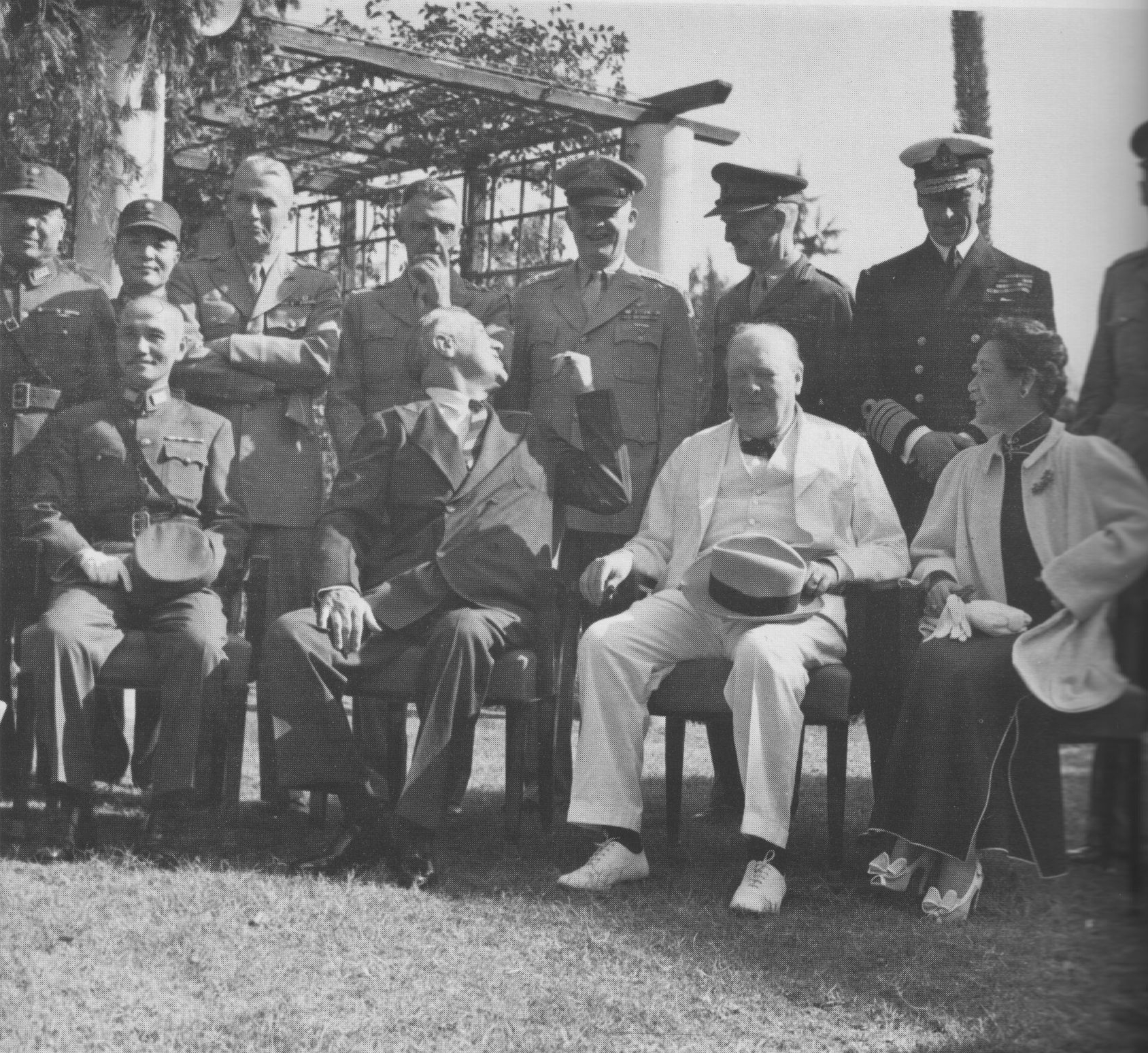 Cairo conference. First row, left to right: Jiang Jieshi, Franklyn Roosevelt, Winston Churchill and Mme. Jiang. Back row: General Shang Chen, Lieutenant General Liu Wei, General Somervell, General Stilwell, Eisenhower, Field Marshall John Dill, Admiral Mountbatten and Major General Carton de Wiart.